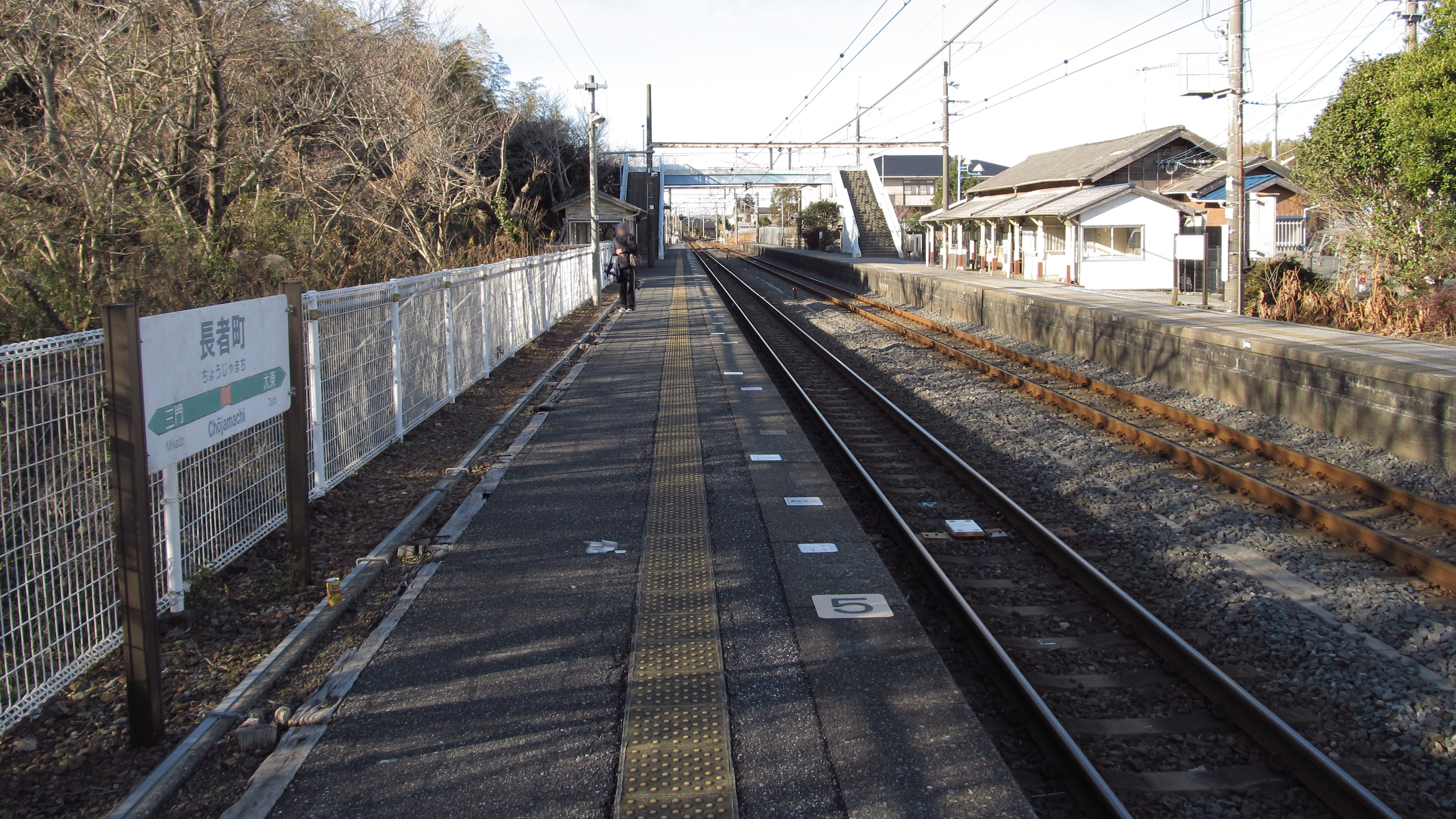 The platforms at Chōjamachi Station on the Sotobō Line in Isumi city, Chiba prefecture, Japan